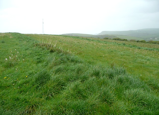 Strip field at Forrabury Whilst the stitches (strips) to the west of track across the open field were arable at the time of this visit (early May 2009), on the east side they are covered in grass. This illustrates the system whereby the stitches were cultivated by their owners during the Summer, but grazed in common during the winter. This grazing adds manure to the soil to keep it fertile.